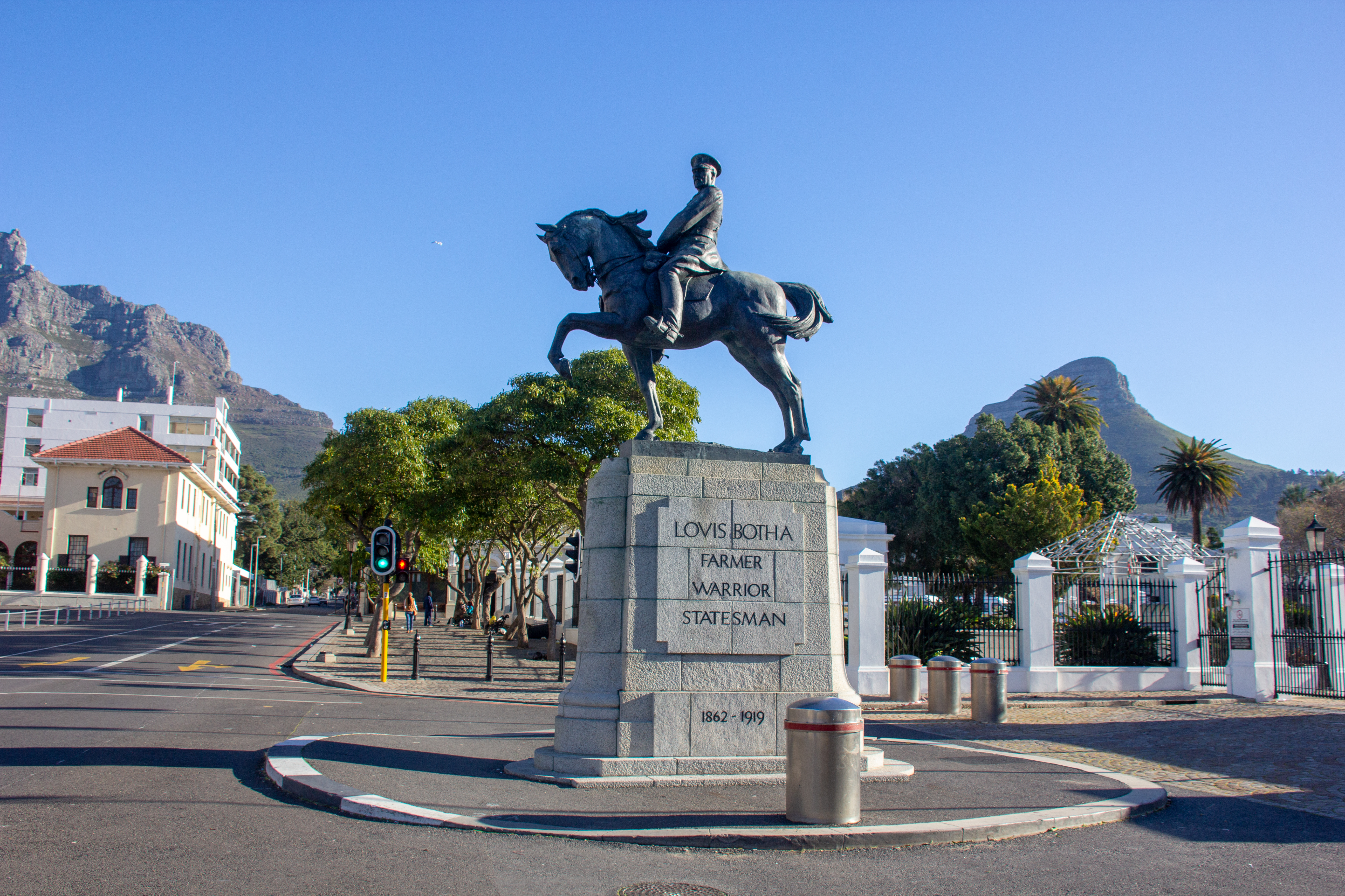 Cape Town